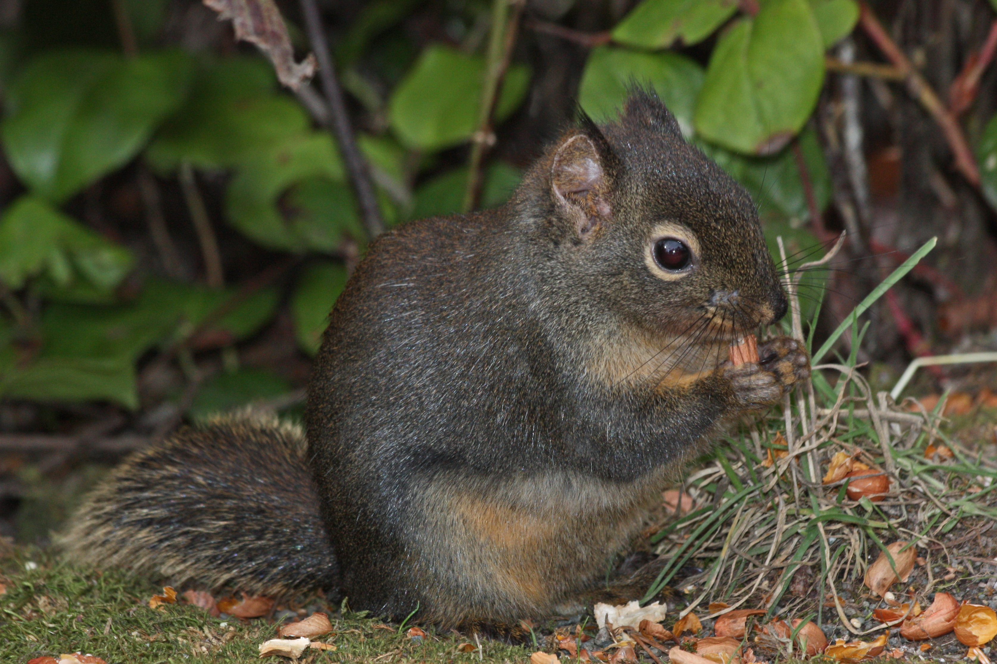 Douglas's Squirrel Viewpoint location: Loop Road, Washington Park (Anacortes) Viewpoint elevation: 13 meter (42 ft) Location source: Garmin GPSmap 60CSx Location Datum: WGS84